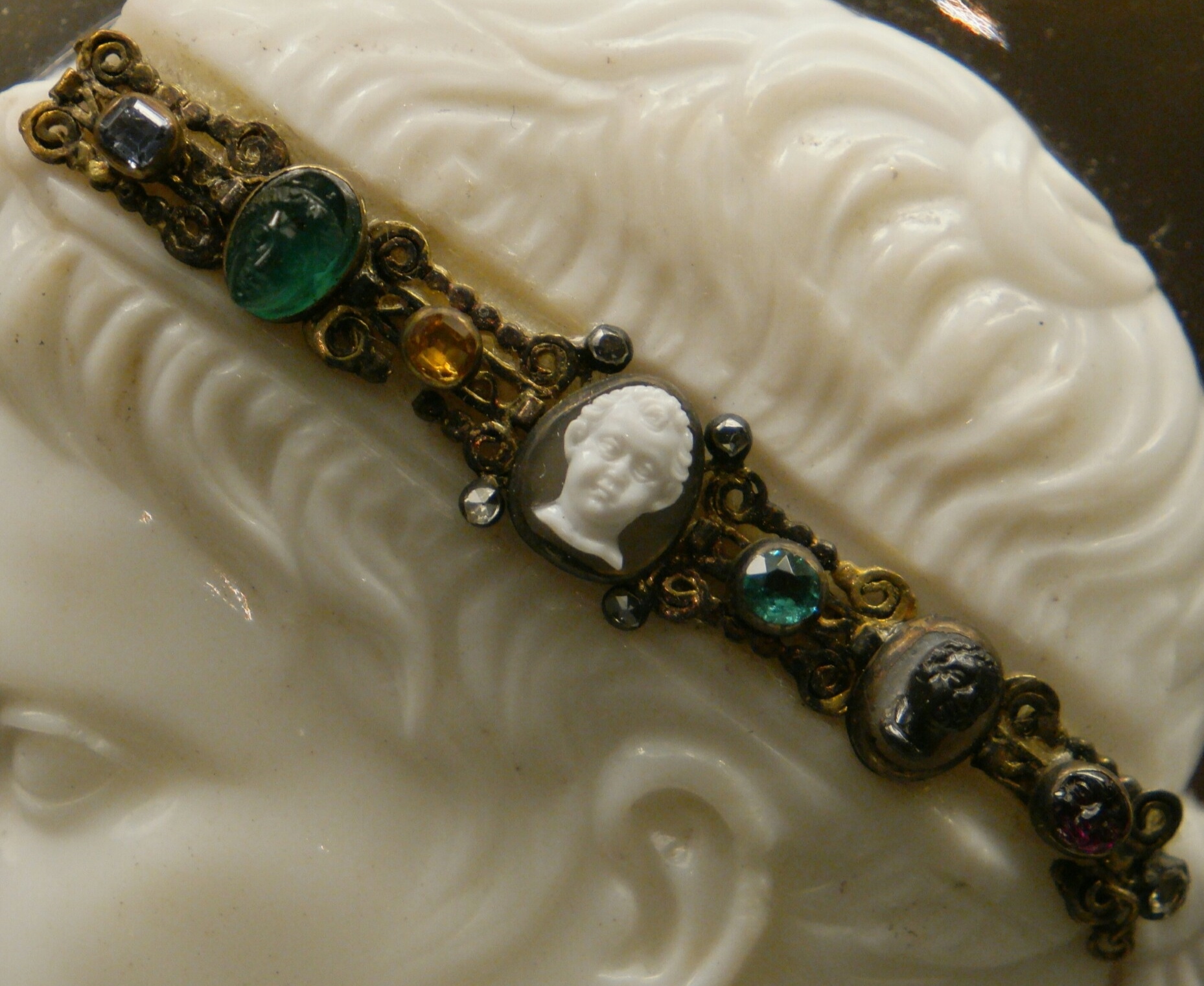 Augustus is wearing the aegis of Minerva. This close-up of the portrait on the cameo is about 1 inch across, so the detail came out extremely well. British Museum, Strozzi and Blacas Collections. GR 1867.5-7.484.